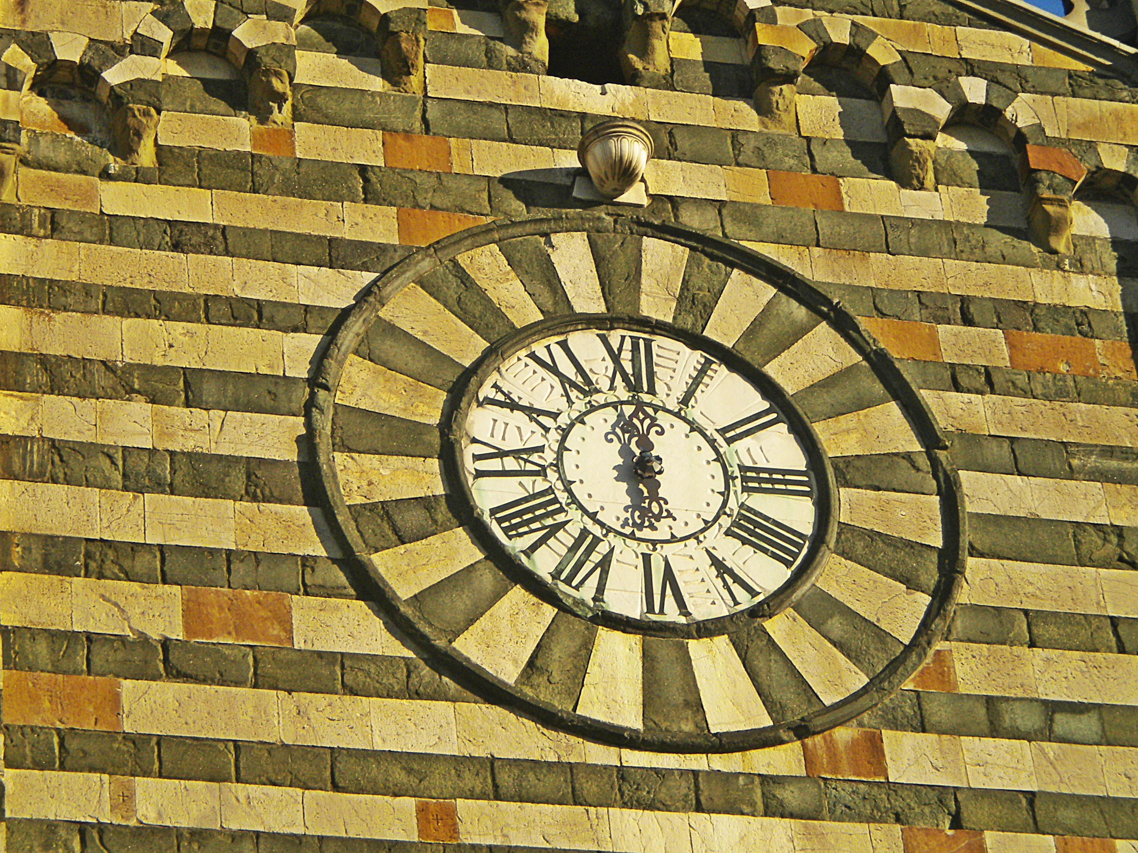 clock